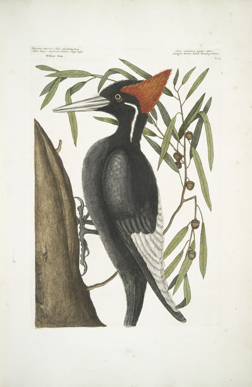 "Quercus Anpotius, Ilex Marilandica folio longo angusto salicis, Willow Oak; Picus Maximus rostro Albo, Largest White-Billed Woodpecker," by the English artist Mark Catesby. From The natural history of Carolina, Florida, and the Bahama Islands, 2nd edition. Image courtesy of the New York Public Library Digital Collection.